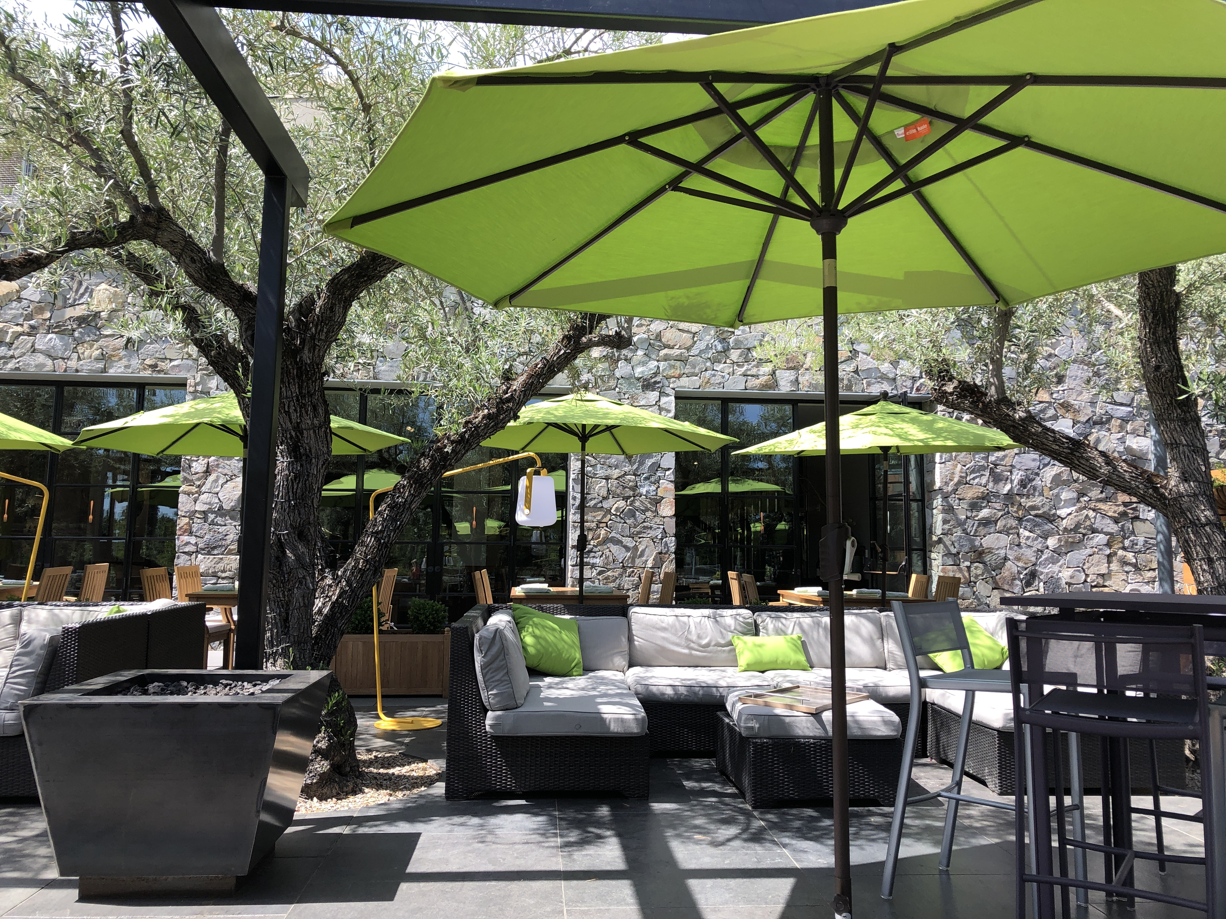 Grove in Napa, California